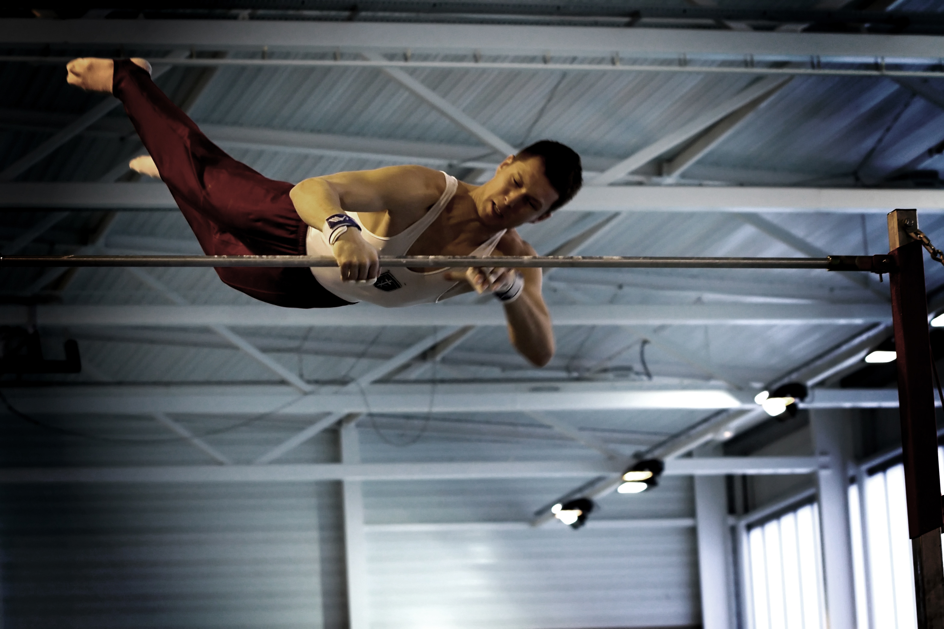 Figure on horizontal bar.